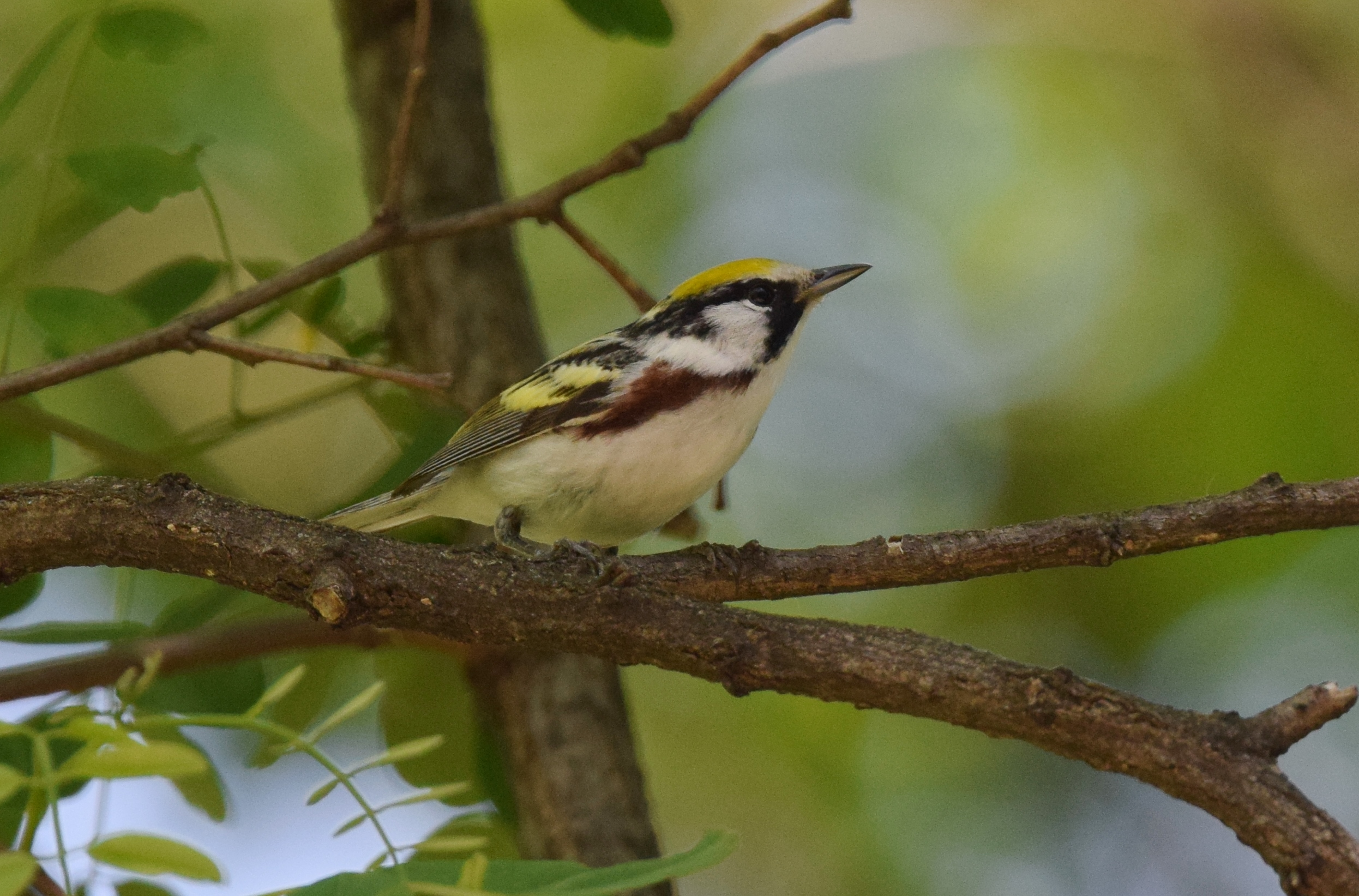 Chestnut-sided Warbler